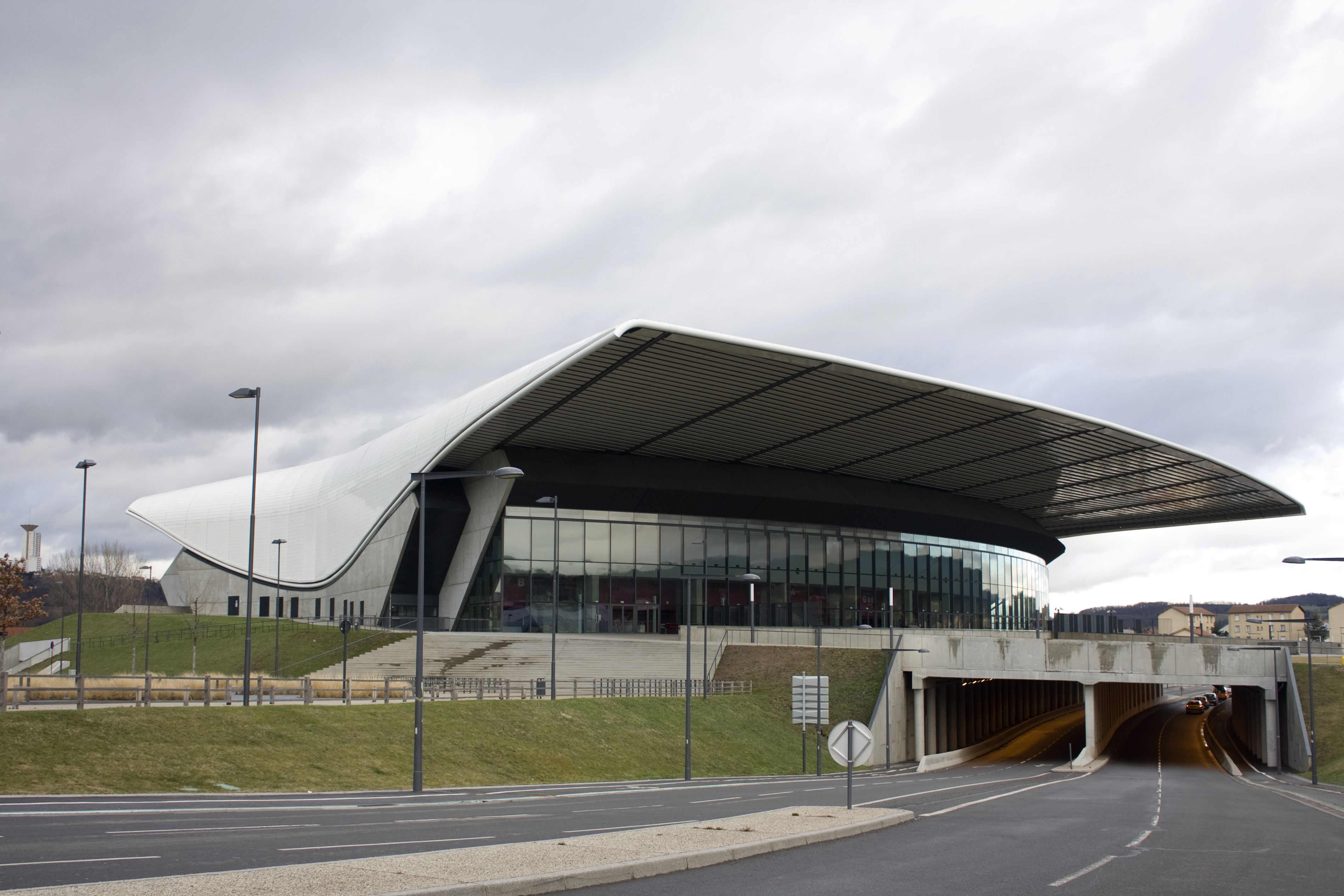 The Zenith, multipurpose hall.